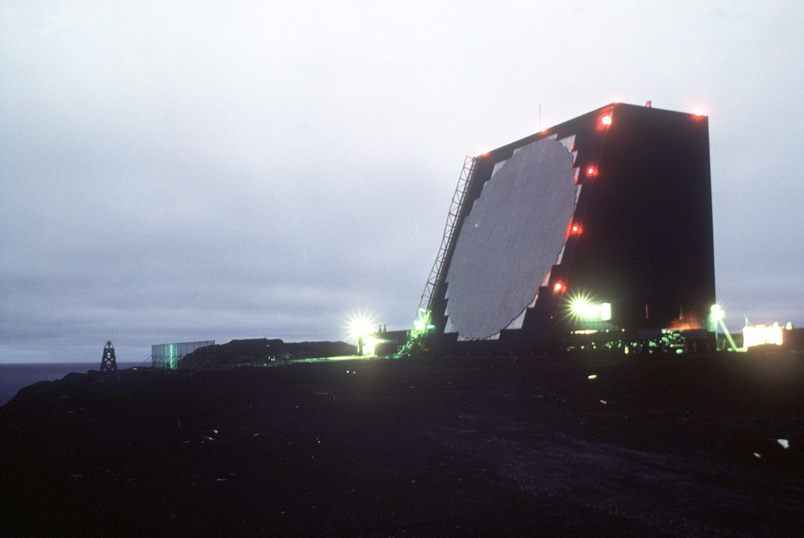 A view of COBRA DANE, an intelligence-gathering phased array radar system specially constructed to monitor Soviet ballistic missile testing on Siberia's Kamchatka Peninsula. Location: SHEMYA AIR FORCE BASE, ALASKA (AK) UNITED STATES OF AMERICA (USA)